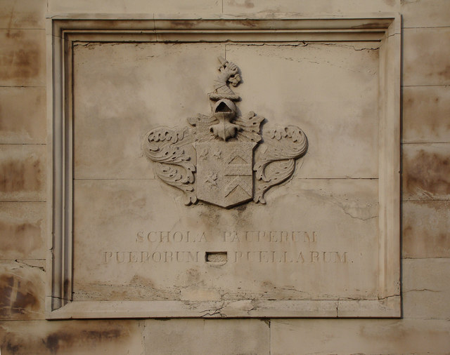 Polesworth School The inscription above the main door translates as "school for poor boys and girls". The school-house, founded by Sir Francis Nethersole in 1655,at the north-west corner of the High Street is of half-H plan with walls of red and black bricks and stone dressings, and balustraded parapets.['Parishes: Polesworth', in A History of the County of Warwick: Volume 4, Hemlingford Hundred, ed. L F Salzman (London, 1947), pp. 186-198. British History Online [accessed 31 December 2019]. The family originated at the manor of Nethersole in Womenswold/Wimlingswold/Wingham Would, etc. in Kent. )The History and Topographical Survey of the County of Kent ..., Volume 9 By Edward Hasted[1]) Nethersole married Lucy Goodere, a daughter of Sir Henry Goodere of Warwickshire. Lucy died on 9 July 1652, aged 58, and was buried in Polesworth Church. Nethersole died in 1659 at Polesworth, without issue. Arms of Nethersole: Per pale gules and azure, three griffins segreant or, impaling Goodere: Gules, a fess between two chevrons vair. John Guillim, A Display of Heraldry, 1724, "Edward Goodere of Burhope in Com Hereford, Esq: Gules, a fess between two chevrons vair". See also Visitations of the County of Nottingham 1559 - 1614 By George Marshall, "Goodere of Hadley", Middlesex[2]. Arms of Goodere baronets of Burhope,(in the parish of Wellington) Herefordshire: Gules, a fess between two chevrons vair (A Genealogical and Heraldic History of the Extinct and Dormant Baronetcies ... By John Burke, Sir Bernard Burke[3])